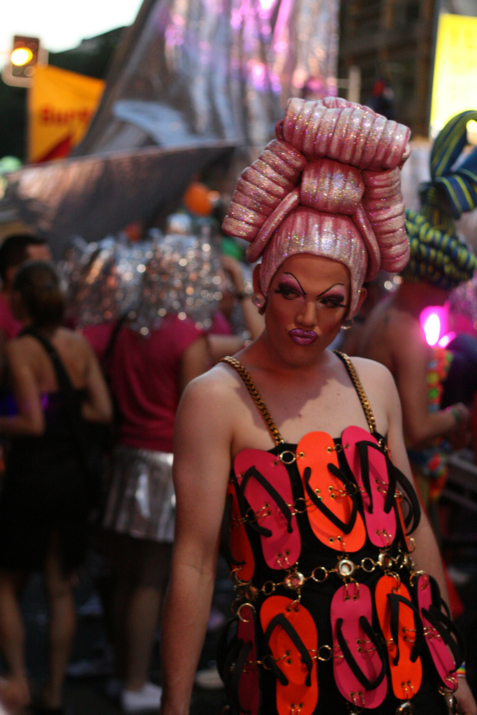 A reveler in Sydney on Mardi Gras.